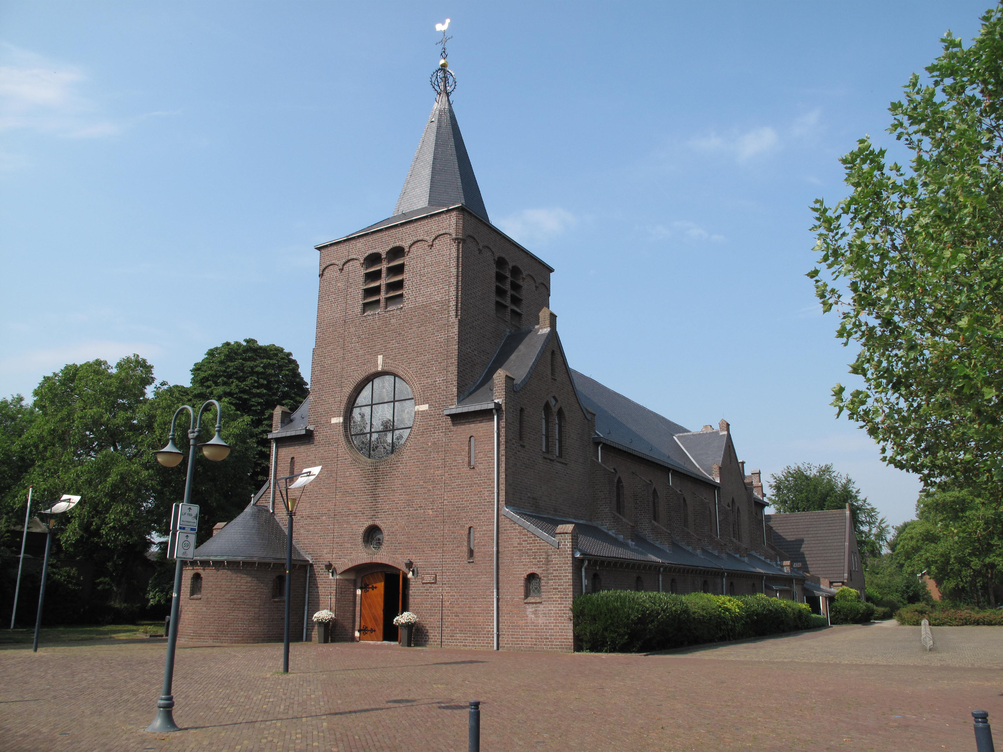 Dalfsen, Cyriacus church